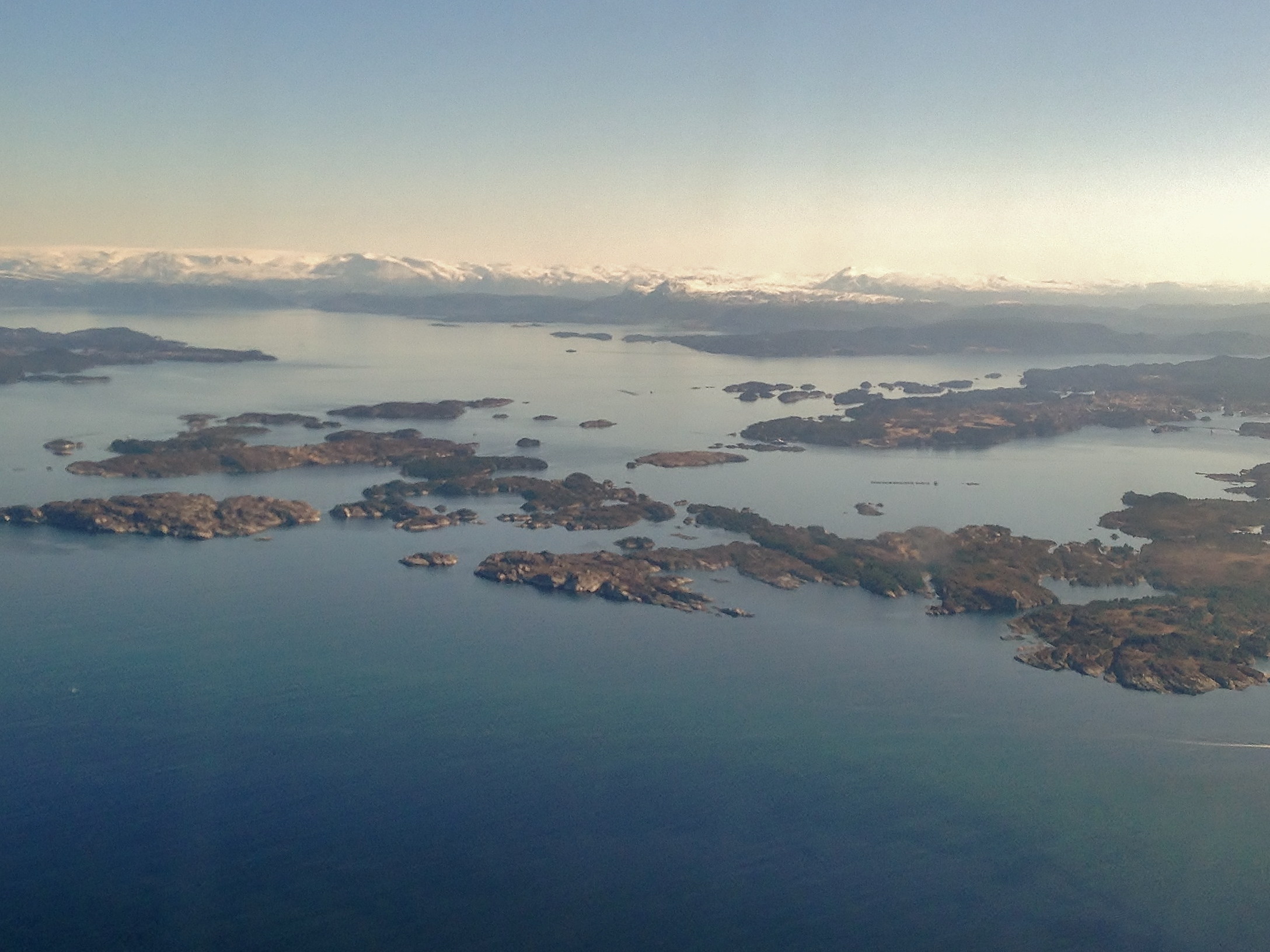 Bjørnefjord is seen stretching from northern Austevoll towards the Hardanger mountains in the background.